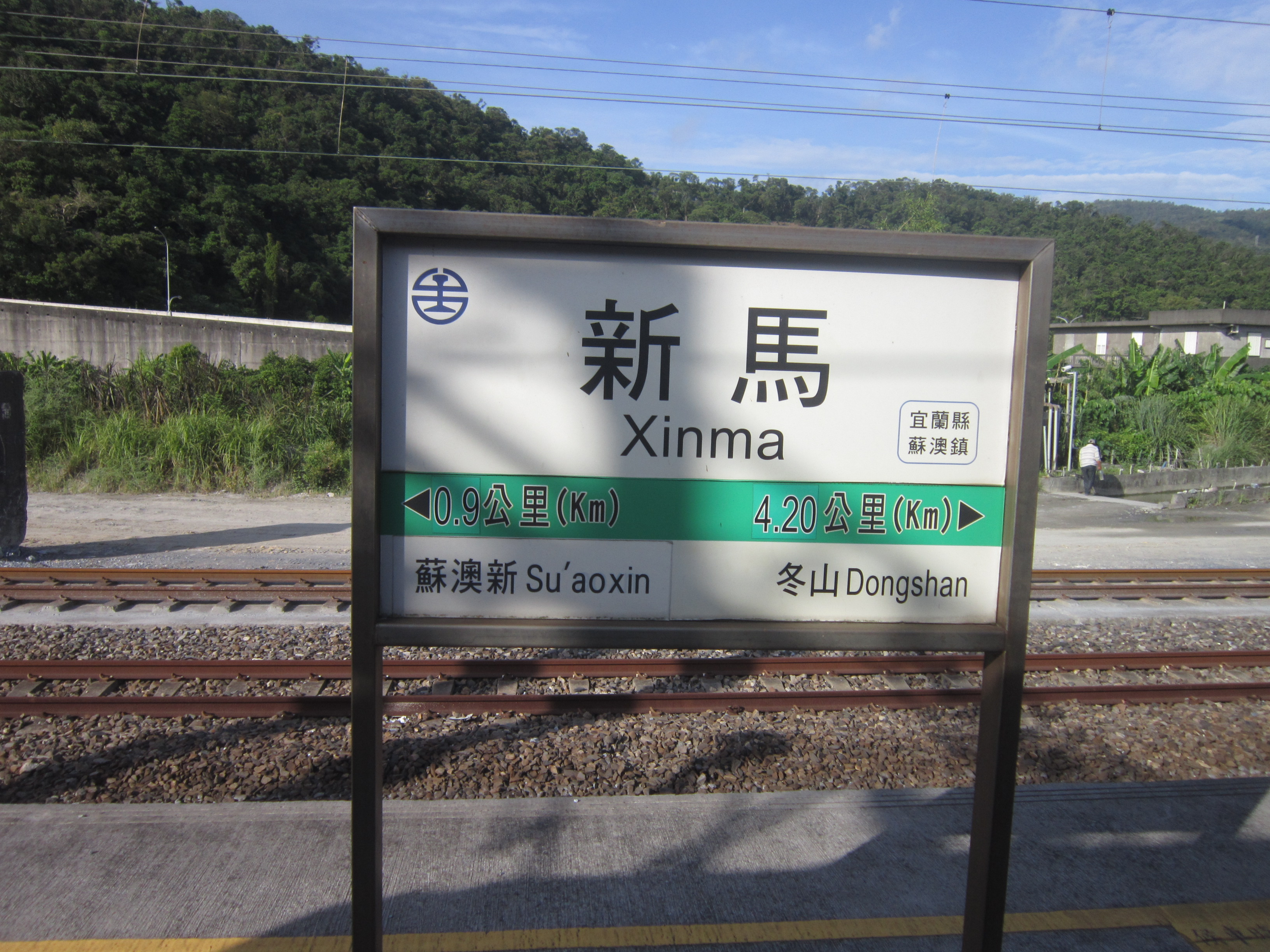 Xinma Station